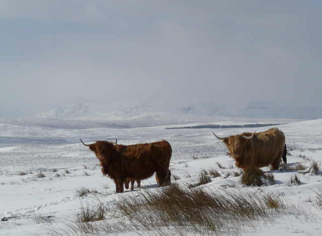 Cattle at Crask.,the babies were camera shy